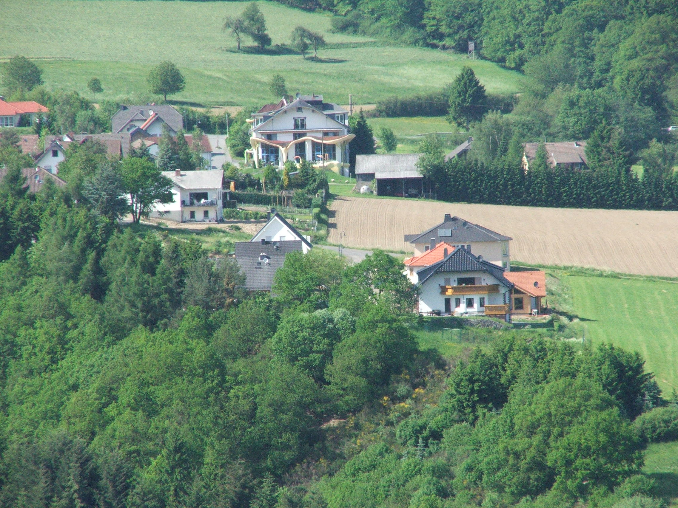 View of Hohenleimbach from southside